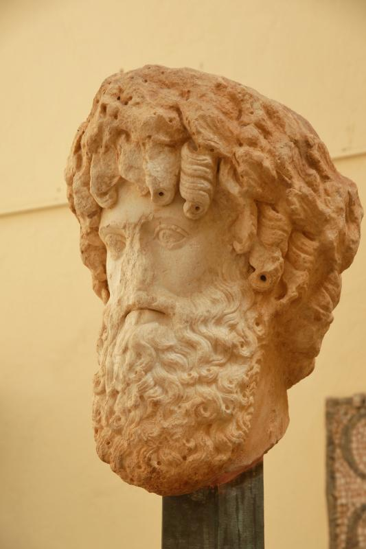 Ancient Roman bust of Juba I (c. 85 BCE – 46 BCE; reigned 60 BCE – 46 BCE) — King of Numidia. Exhibited in the Tipaza Archaeological Museum, Algeria.